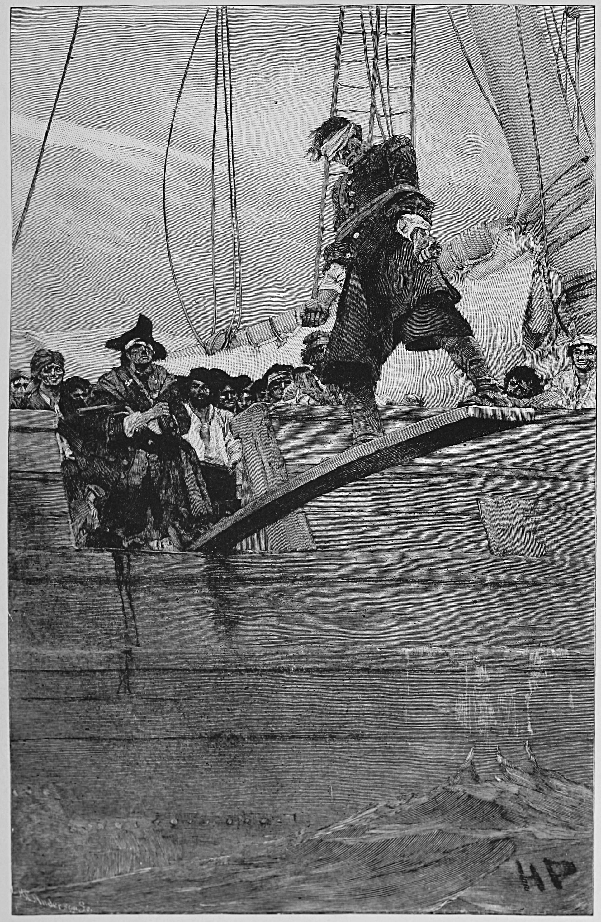 Walking the Plank: this was originally published in Pyle, Howard (August–September 1887). "Buccaneers and Marooners of the Spanish Main". Harper's Magazine.